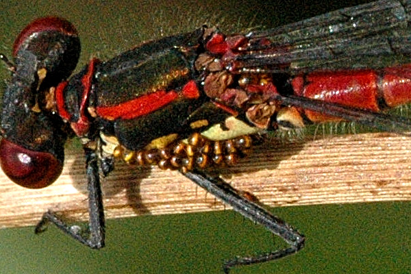 Arrenurus cuspidator from Commanster, Belgian High Ardennes .